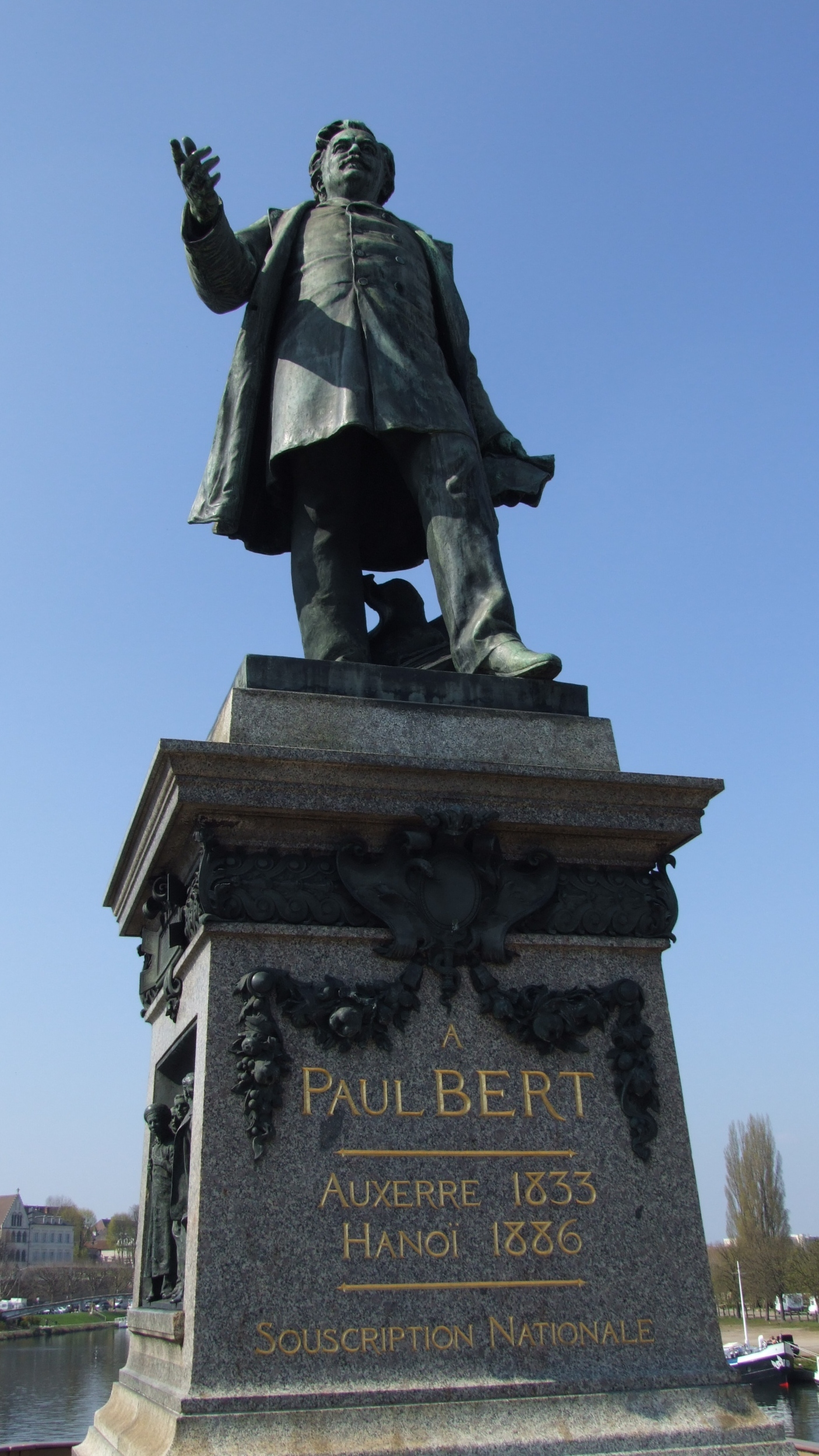 Paul Bert Statue, Auxerre, Burgundy, FRANCE